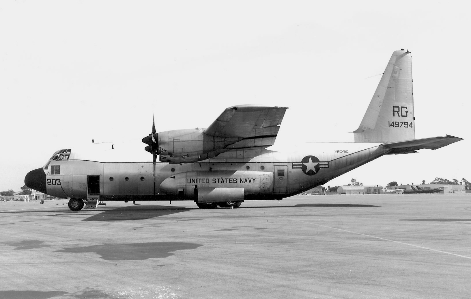 A U.S. Navy Lockheed C-130F Hercules (BuNo 149794), from Fleet Logistics Support Squadron VRC-50 at Naval Air Facility Atsugi, Japan. This aircraft was damaged beyond repair by typhoon "Omar" at Naval Air Facility Agana, Guam (USA), on 27 August 1992. Note the Grumman C-1A Trader and what appears to be several dark painted McDonnell F-3 Demon fighters in the right background.